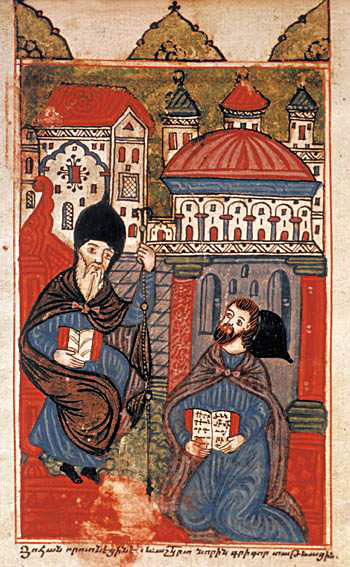 Armenian Miniature Hovhan Vorotneci and Grigor Tatevaci, 15th century Ованес Воротнеци и Григор Татеваци, средневековая рукопись